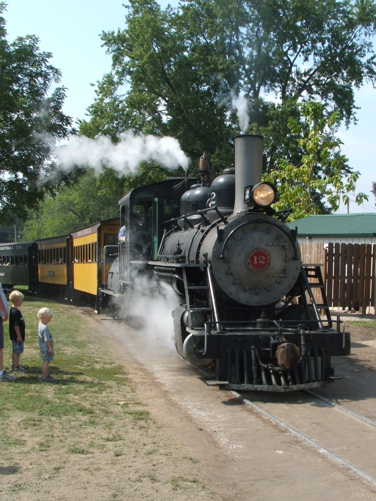 Georgetown Loop Railroad locomotive No. 12 pulling a train into Snipe Run station on the Midwest Central Railroad.